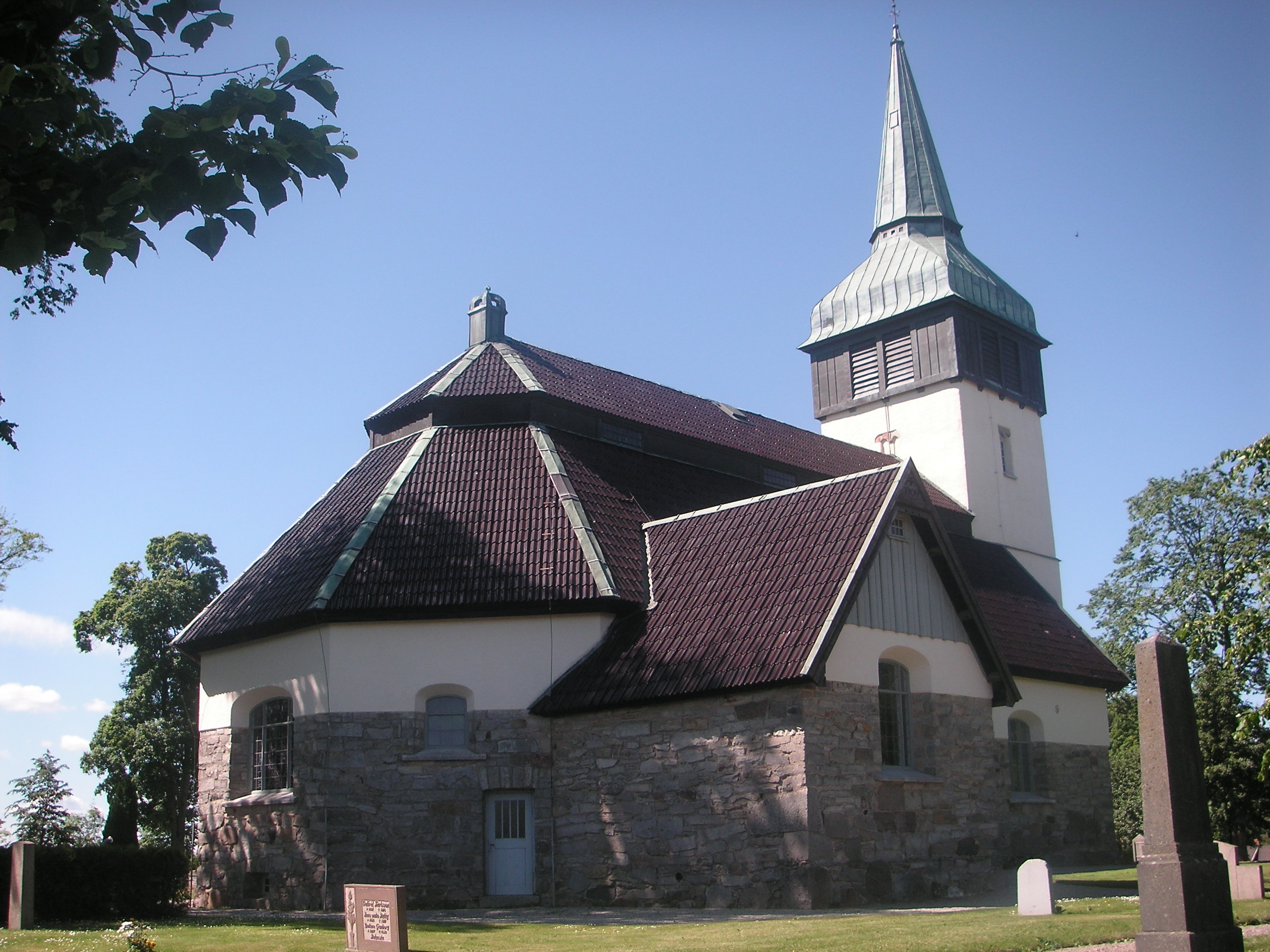 Church in Hackvad (Sweden)